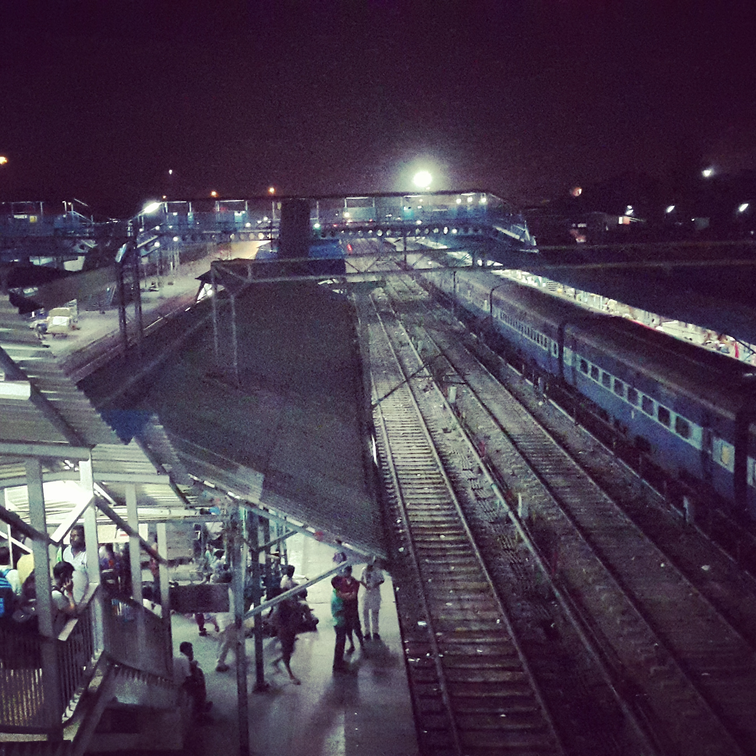 Railway sStation Ludhiana, Punjab, India